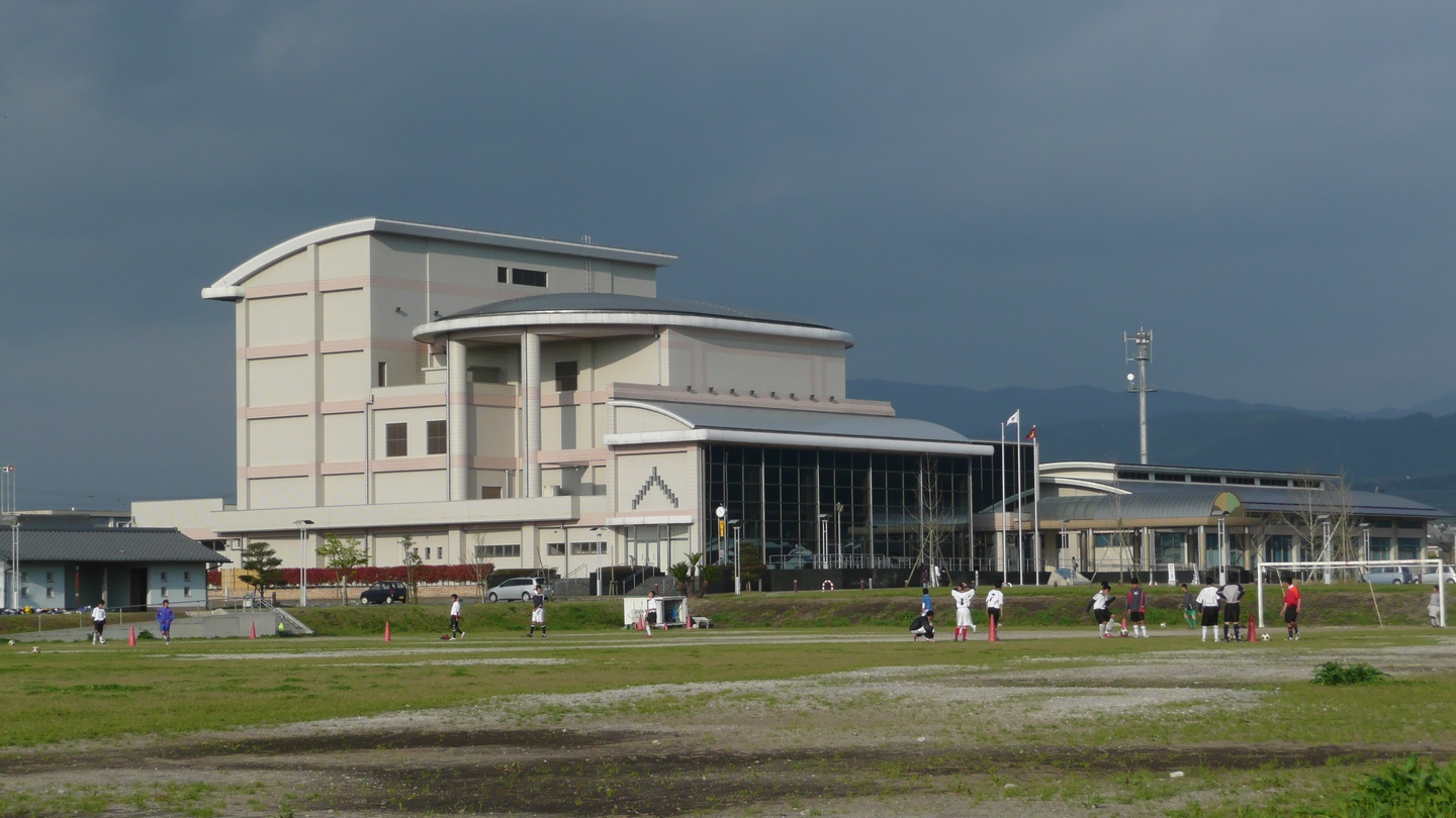 Mimata Town Culture Center (Miyazaki, Japan)